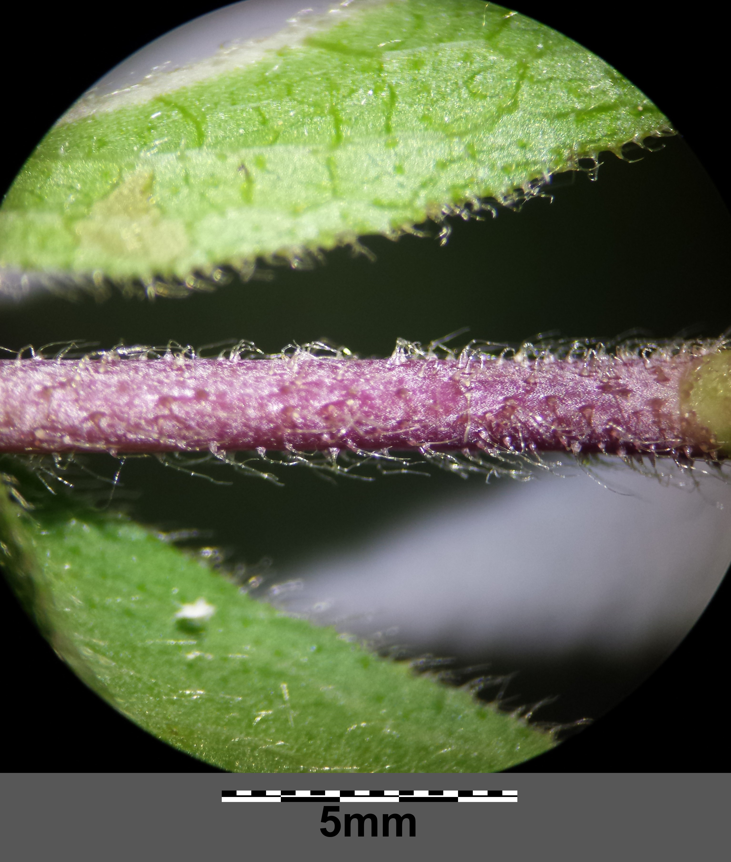 Hirsute stem Taxonym: Inula hirta ss Fischer et al. EfÖLS 2008 ISBN 978-3-85474-187-9 Location: semi-dry grasslands and wine yards to the north of Oberthern, municipality Heldenberg, district Hollabrunn, Lower Austria - ca. 300 m ü. A. Habitat: border of a shrubbery